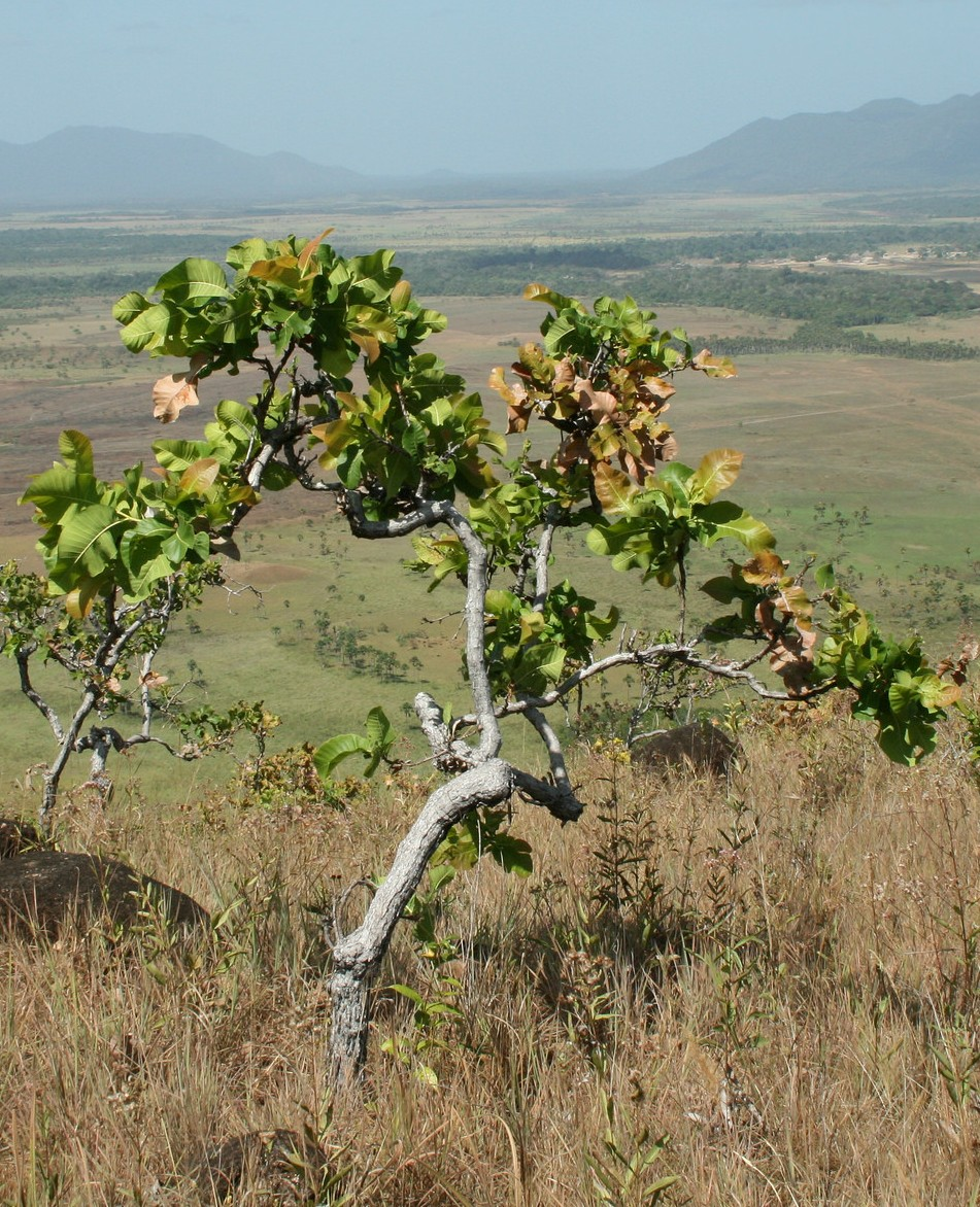 Curatella americana on savana near Cacuri, Venezuela